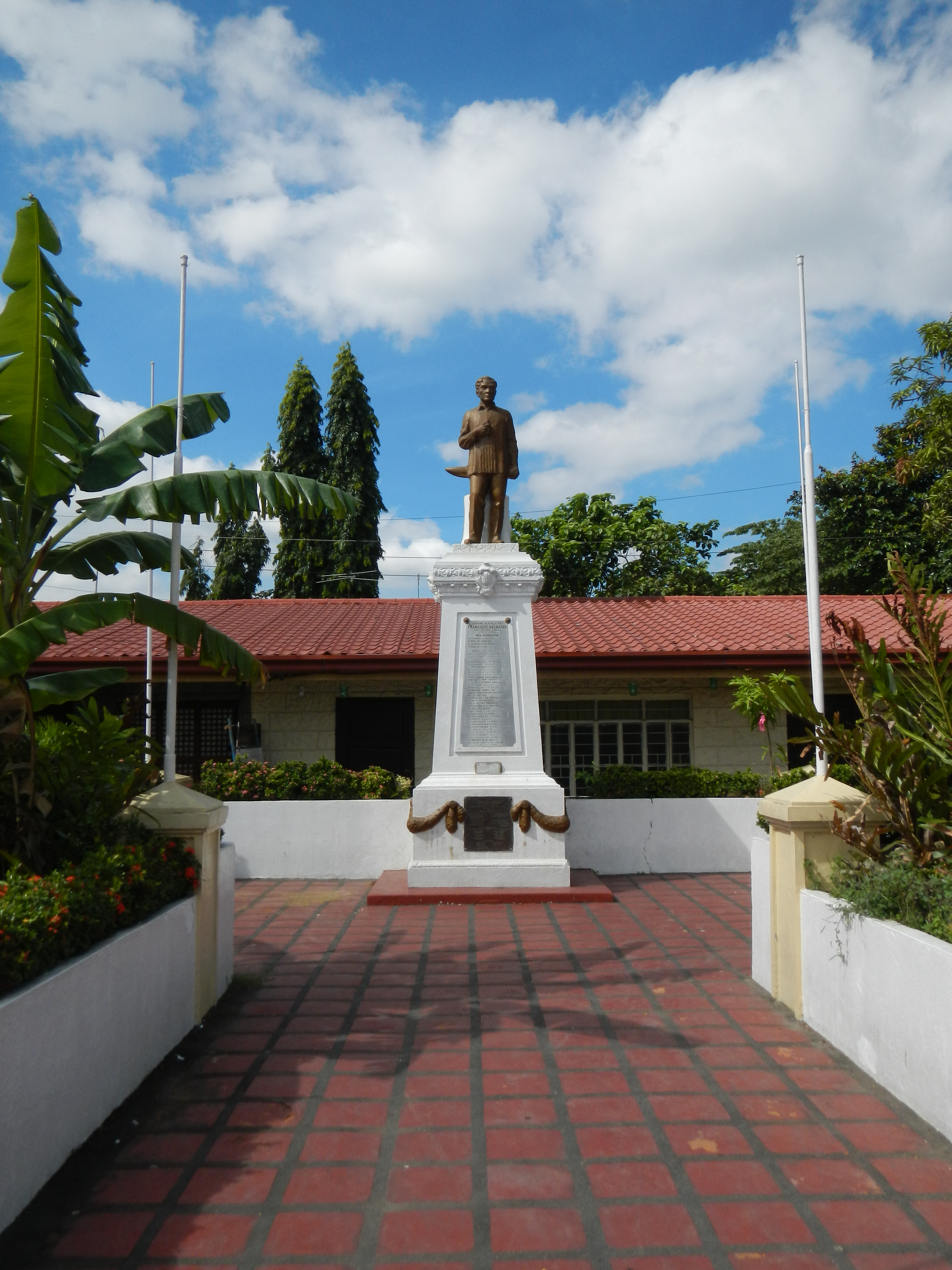 Upload Wizard photos of - Balagtas, Bulacan [1] Balagtas Central School where the Don Pedro S. Cayetano Sports Center is located and the Pook na Sinilangan ni Balagtas NHI Historical Marker in front of the Nipa Hut and Museum and his Monument beside the Mababang Paaralang Pang-Alala kay F. Balagtas beside the Barangay Panginay Hall and Grandstand.